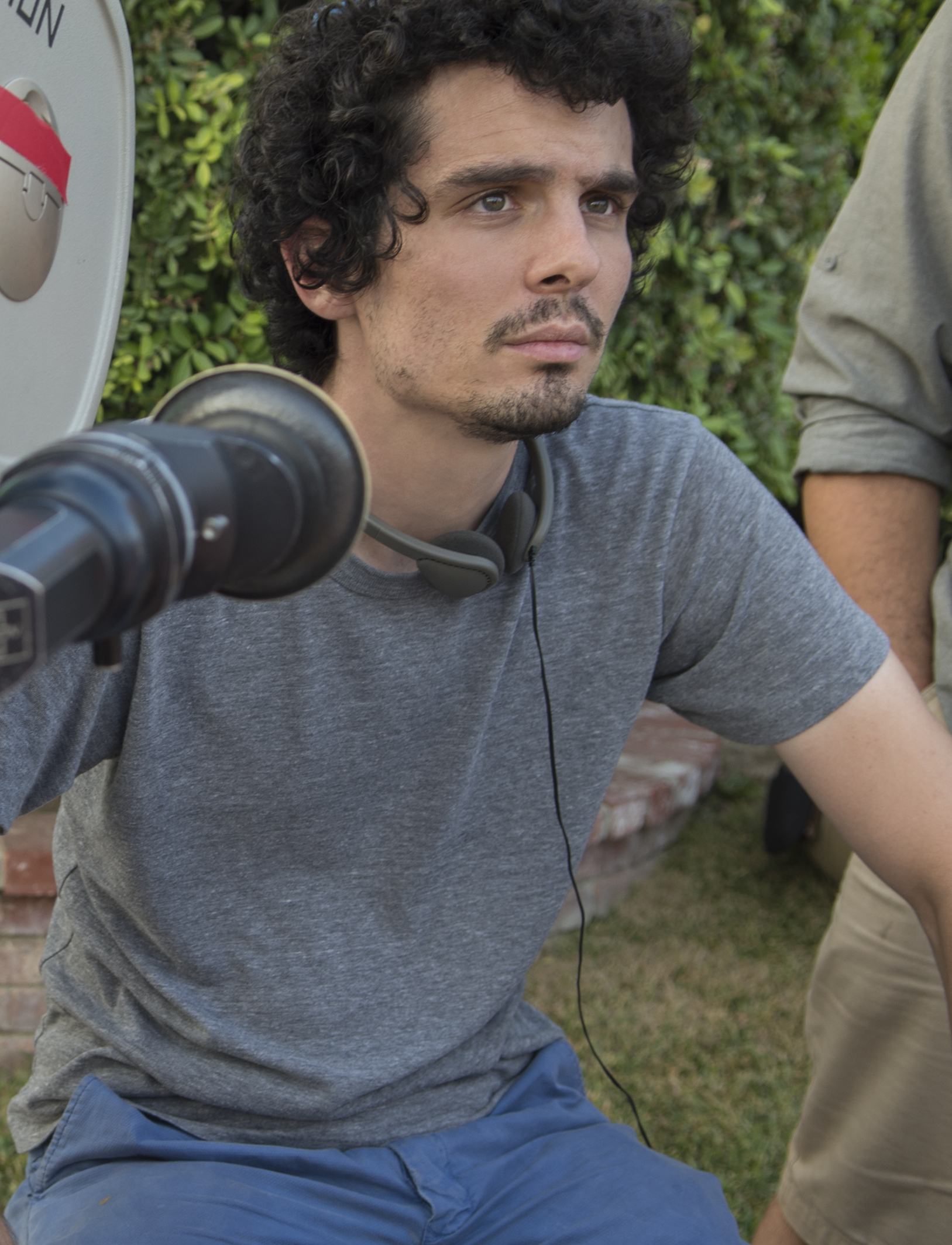 Damien Chazelle directing La La Land